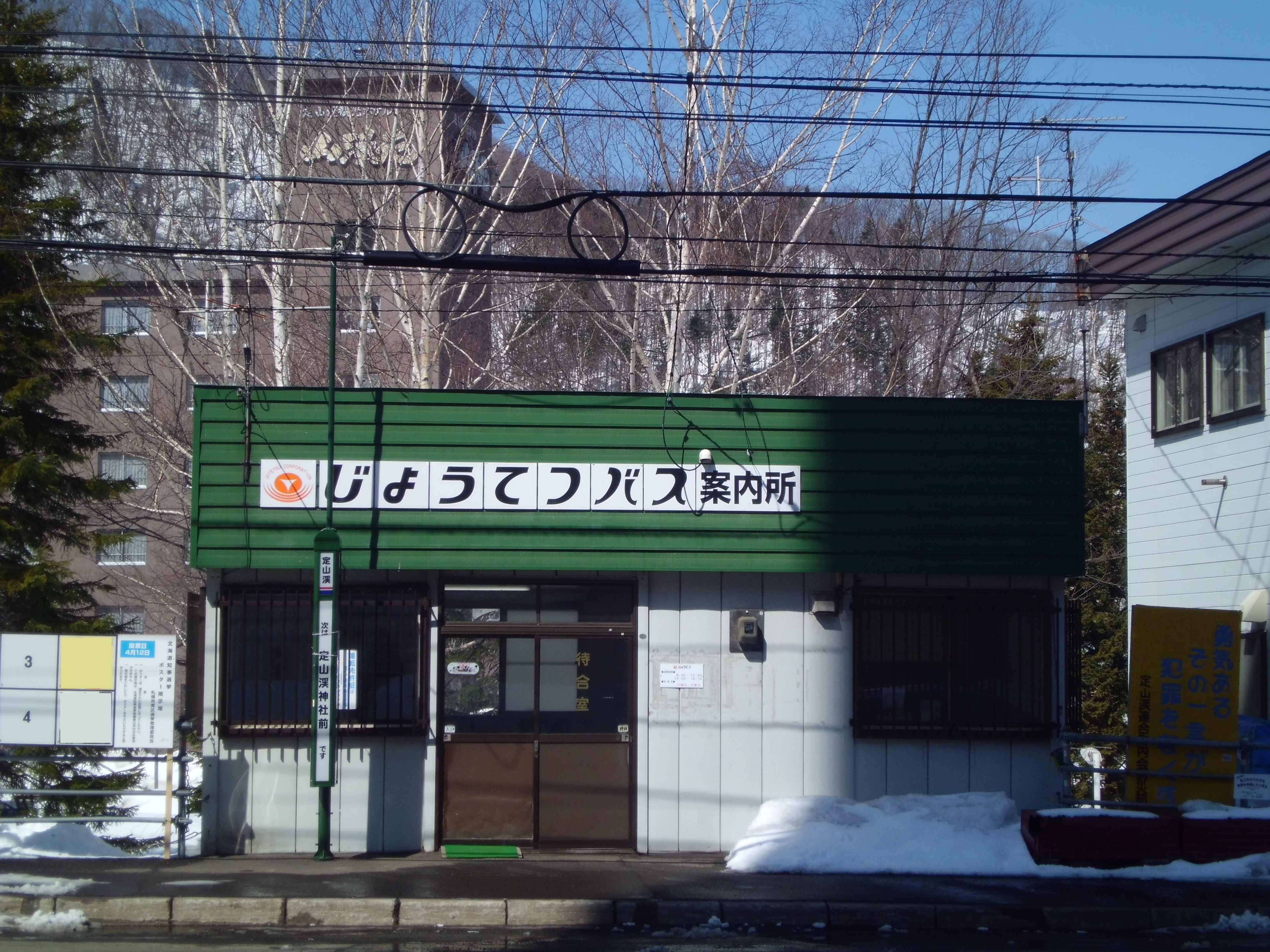 Jotetsu Bus Jozankei Infomation Office